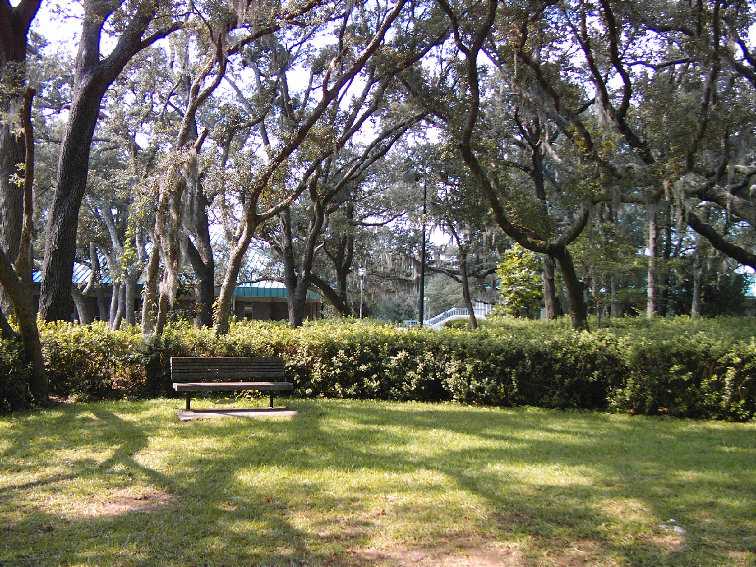 UWF environment